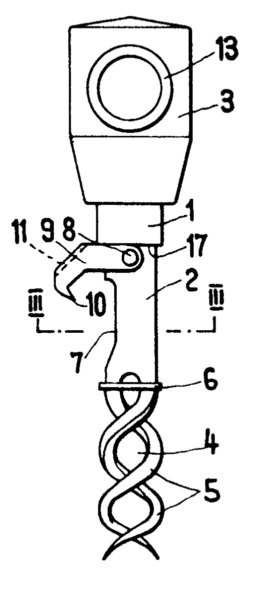 drawing to Swiss patent 355044